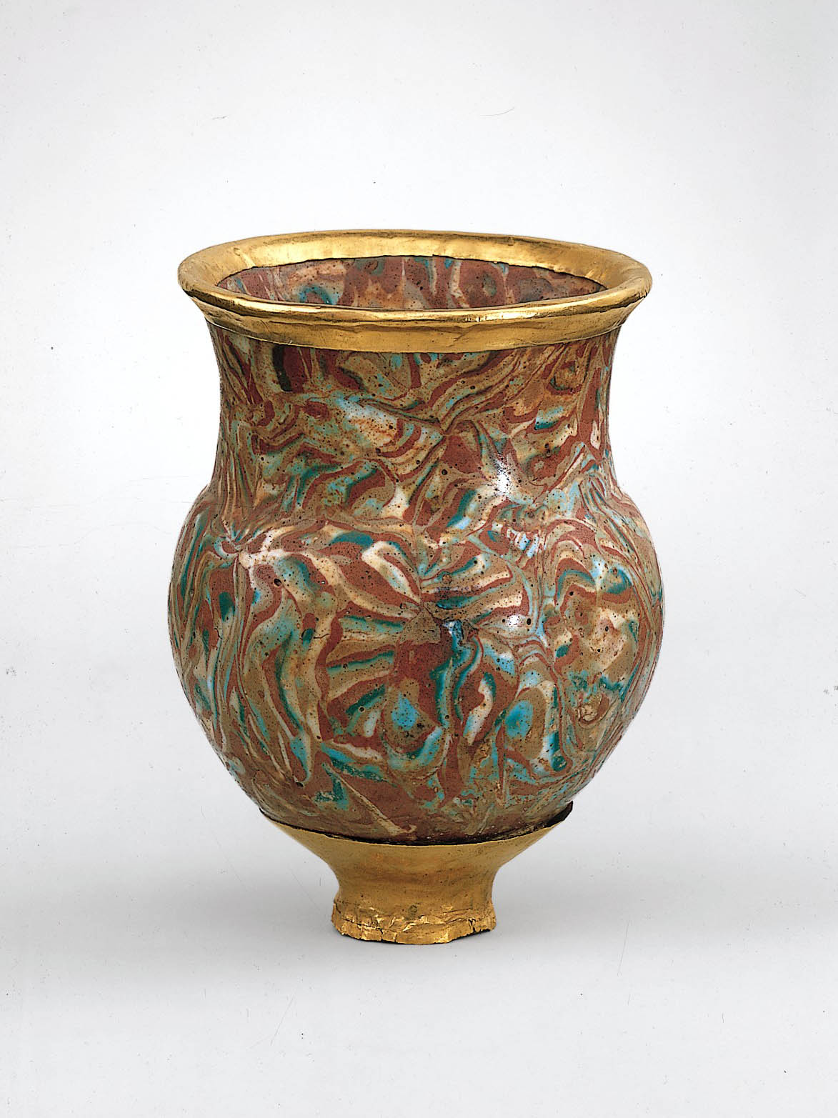 Cup, Nuzi, Mitanni, button-base